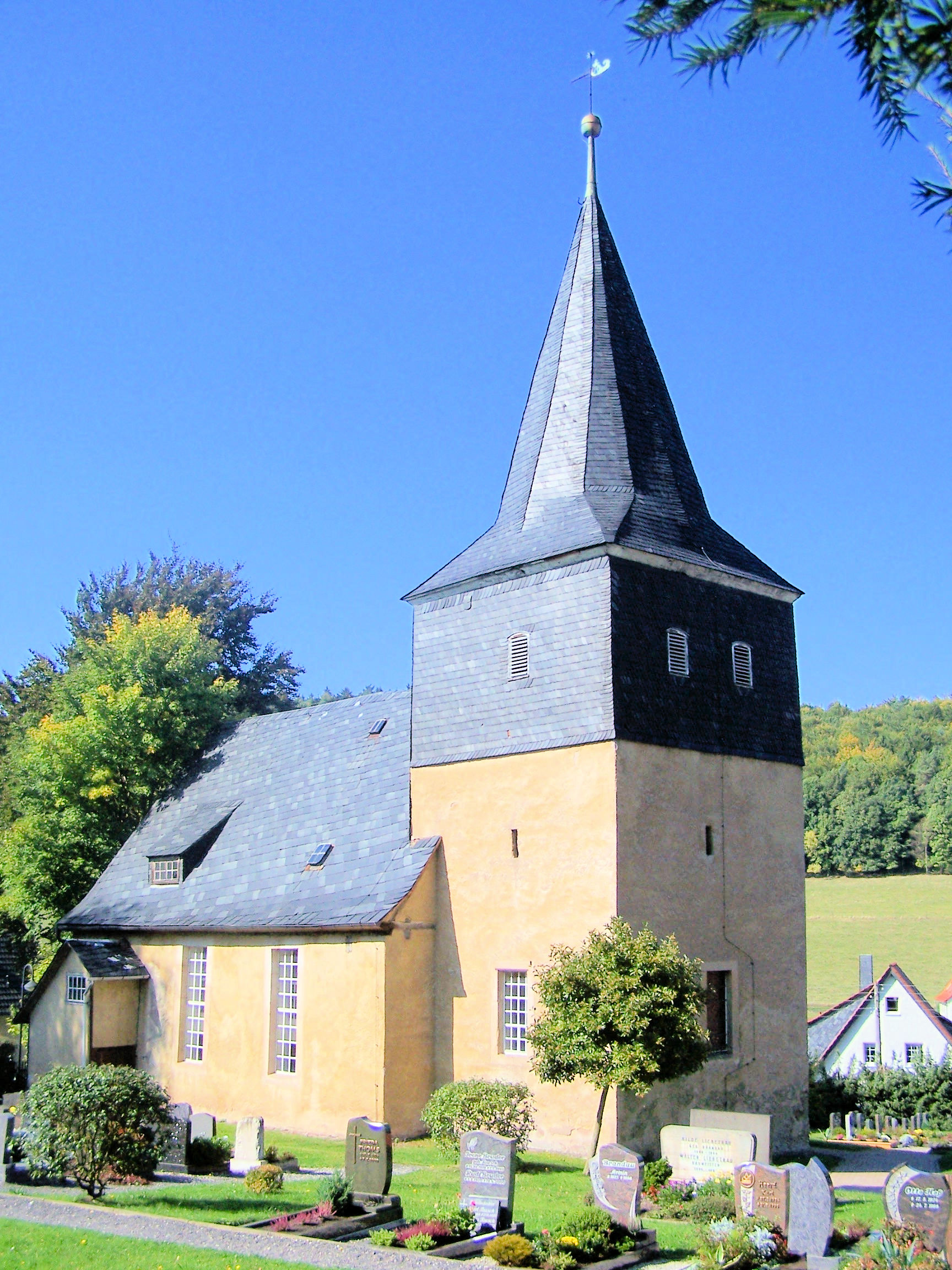 The church in Mosbach.